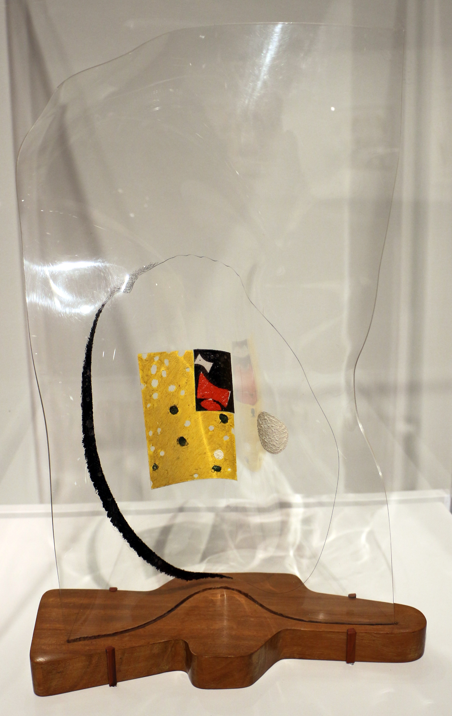 Moholy-Nagy: Future Present (2016 exhibition)